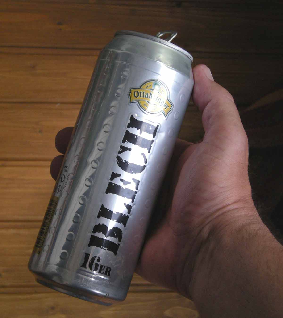 '16er Blech' means, in Viennese slang, 16th district [of Vienna, Austria] 'sheet of metal', which means canned beer produced in Vienna's 16th distict, therefore: produced by Ottakringer brewery.